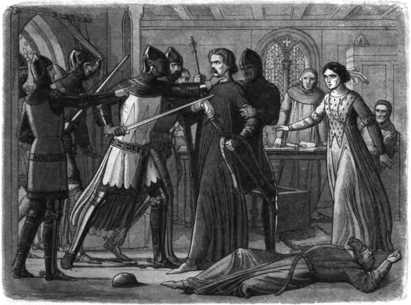 Edward III seizes Roger Mortimer, 1st Earl of March, the lover of his mother, Isabella of France.